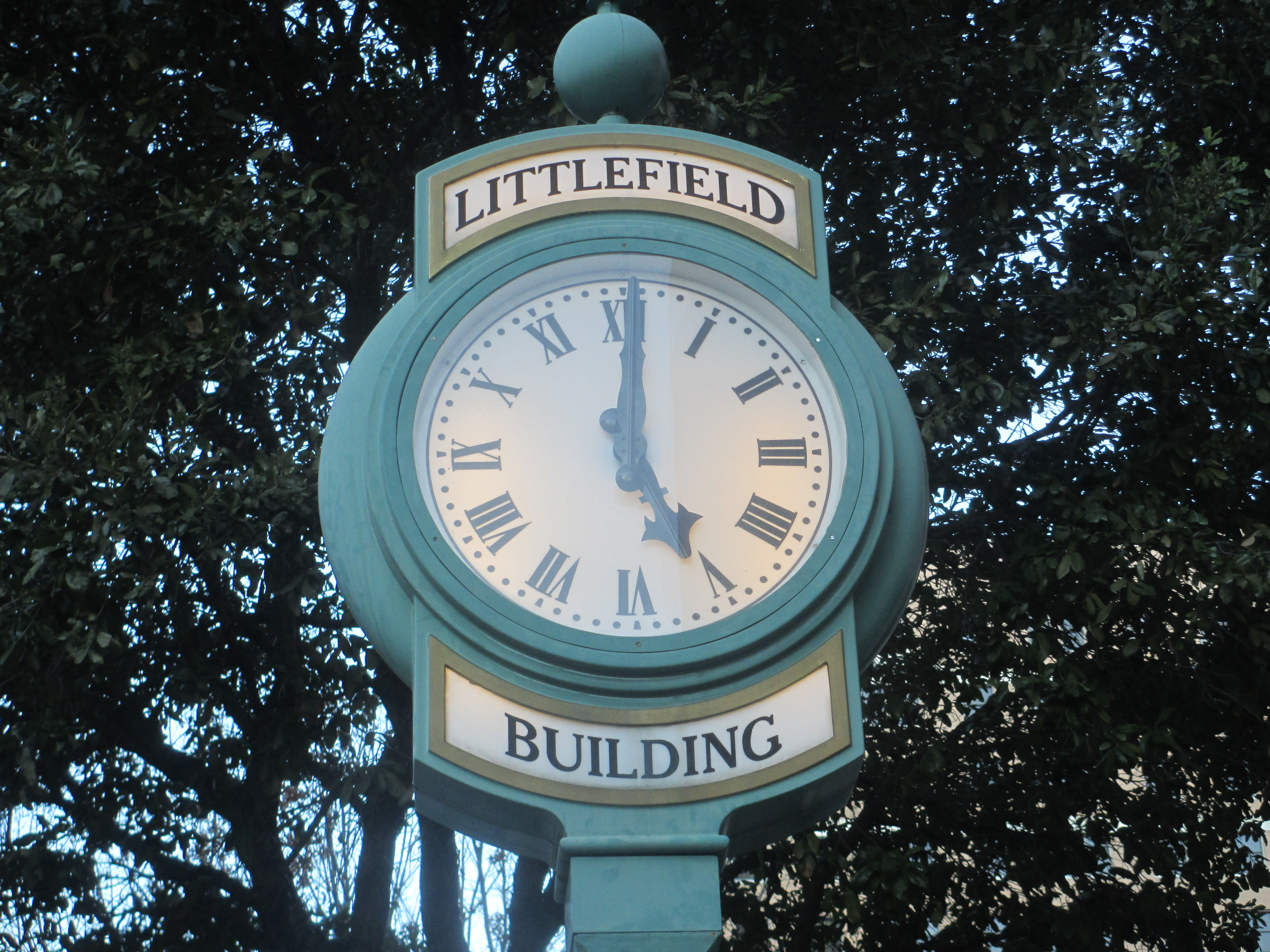 Canon Camera Austin, TX, Littlefield Building clock 1-17-2013